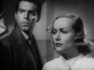 Screenshot of Fred MacMurray and Carole Lombard from the film Swing High, Swing Low